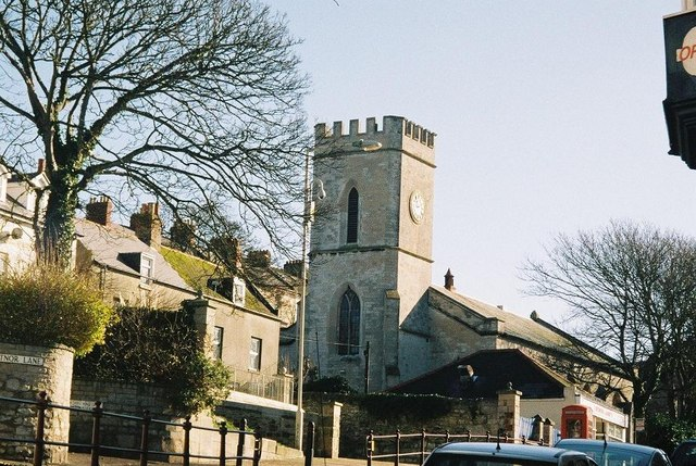 Portland: parish church of St. John the Baptist Built in 1840.